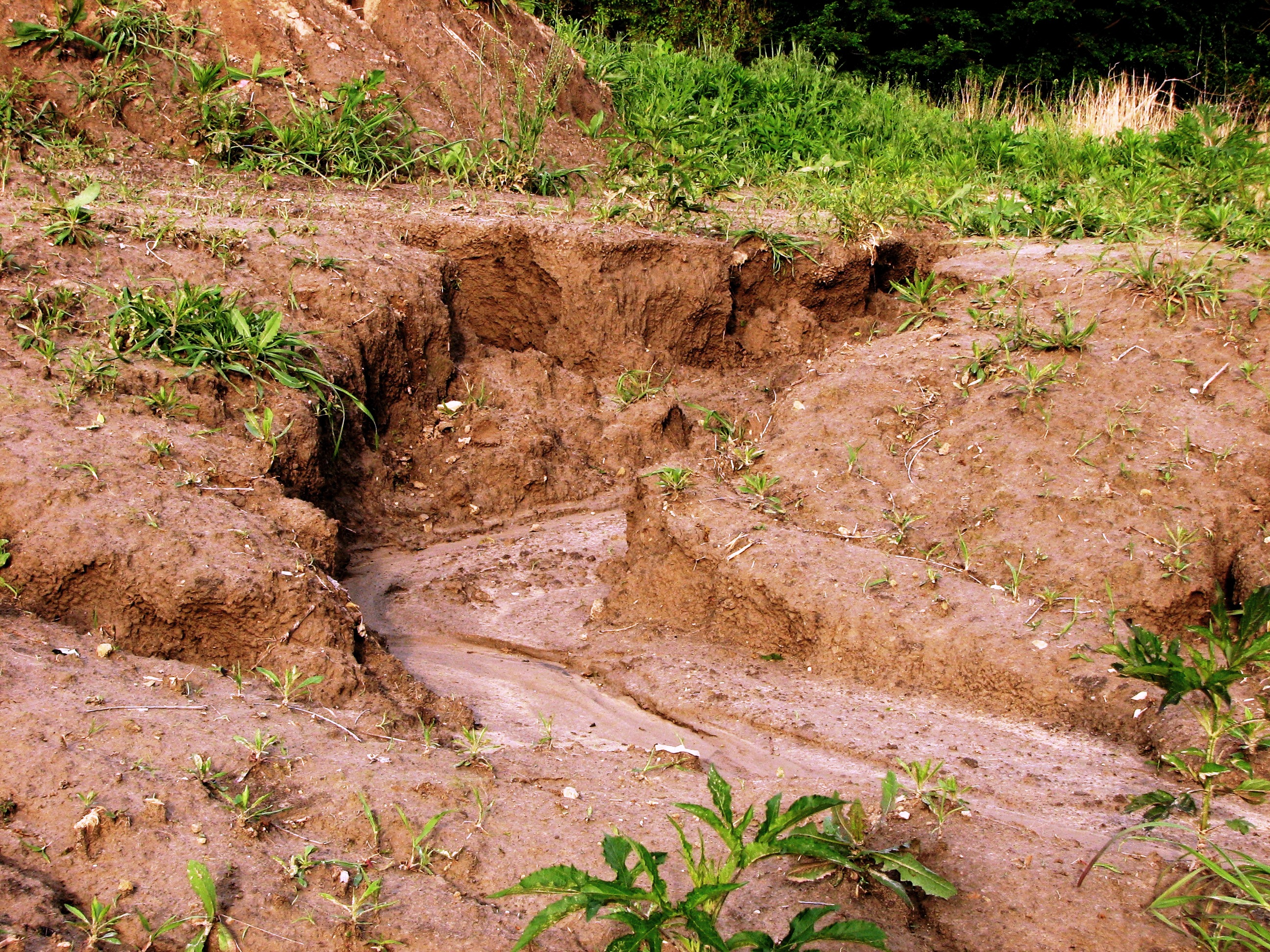 A gully formed by water erosion of unprotected soil during a heavy rainfall event.